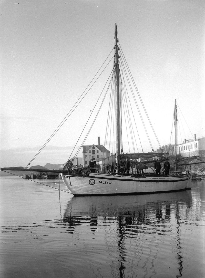 Norwegian rescue boat RS 19 Halten